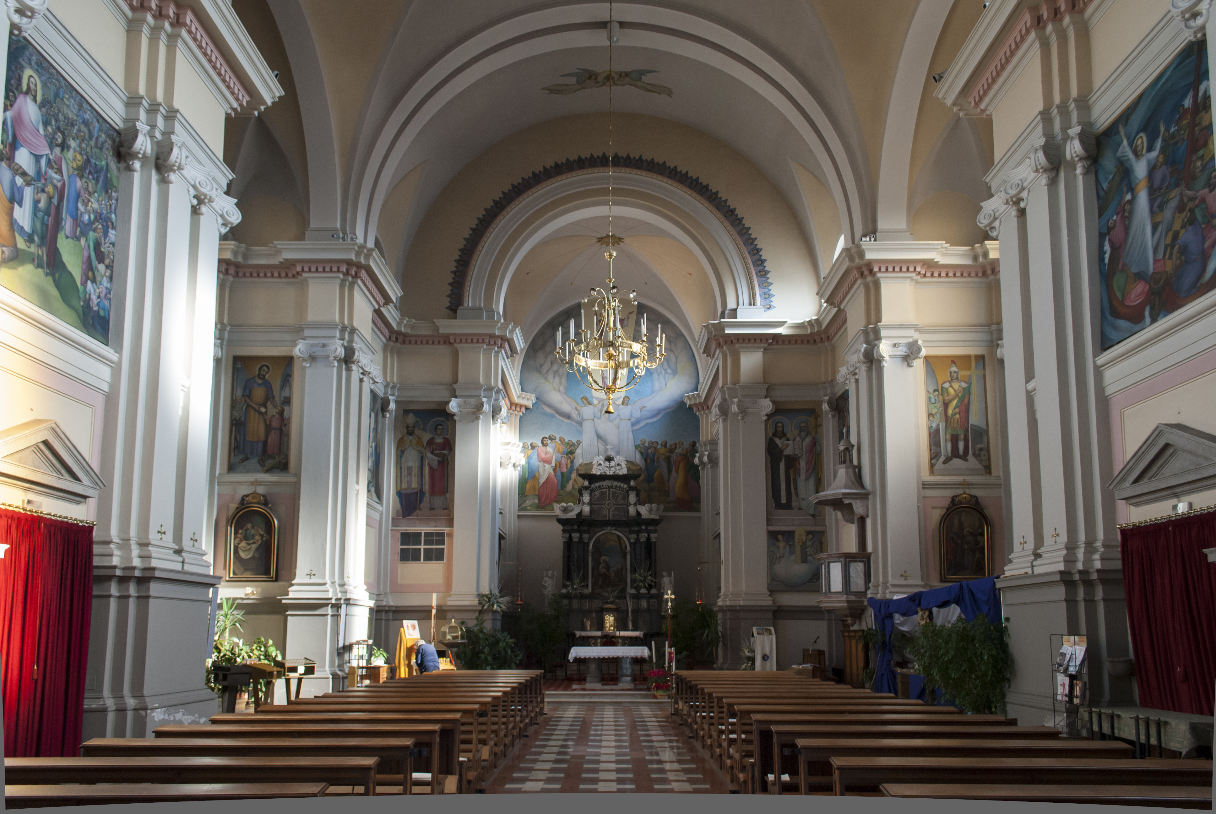 Internal view of church sant'Andrea Apostolo (Saint Andrew), Gorizia.